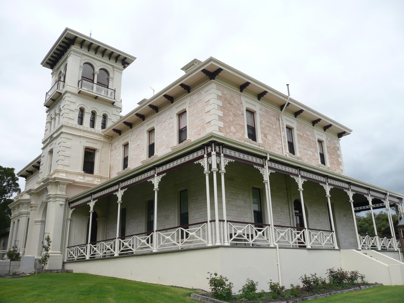 Struan House was originally built from 1873 to 1875 and was used as a private residence, mainly by local pastoralists. It was sold to the South Australian Government in 1946 and became "Struan Farm School" for the training and rehabilitation of delinquent boys. In 1969, the Department of Agriculture took over the facility and associated land for use as an agricultural research station.